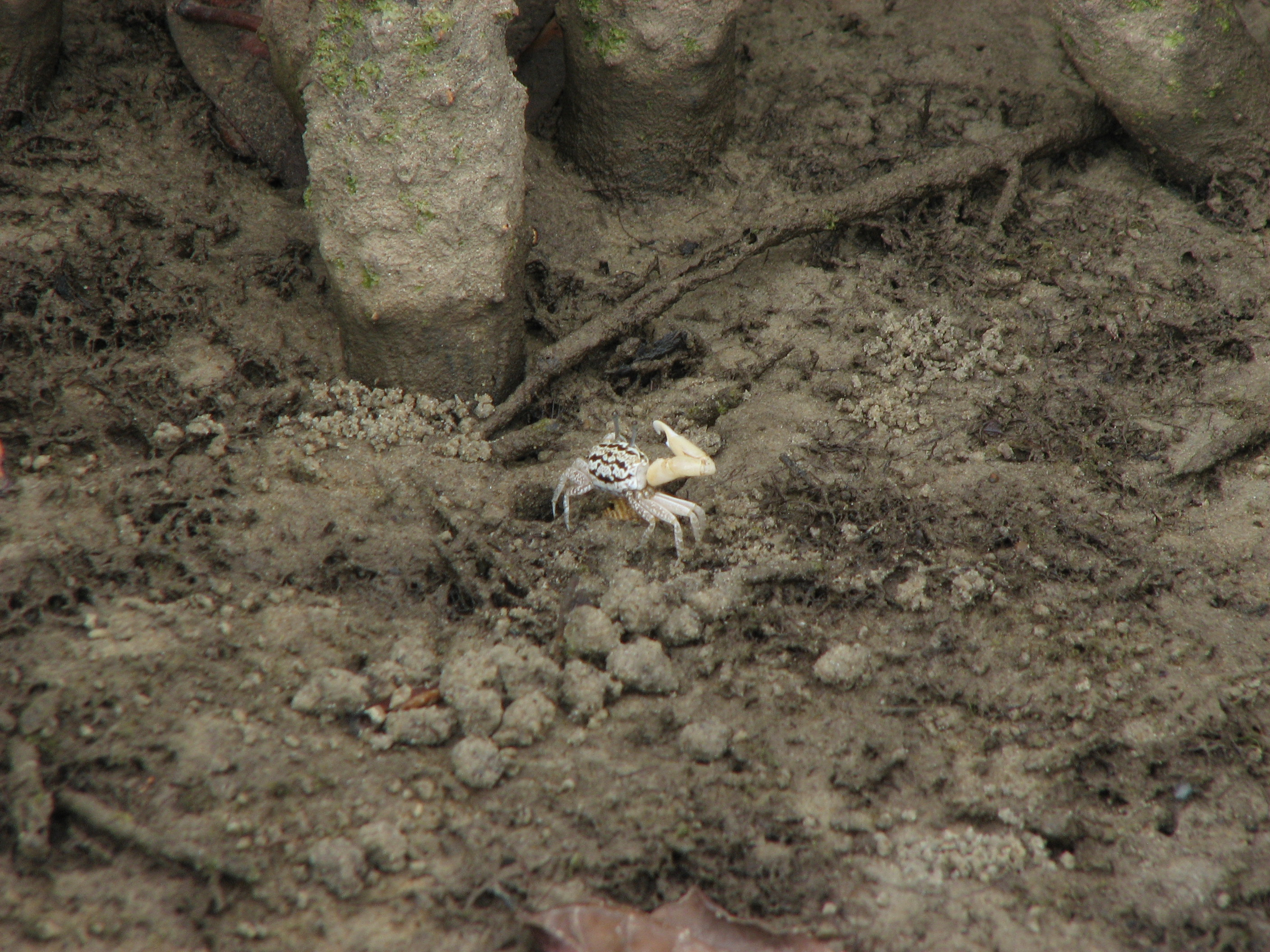 Fiddler crab, Uca lactea perplexa, in mangrove. (Iriomote is. Okinawa, Japan)